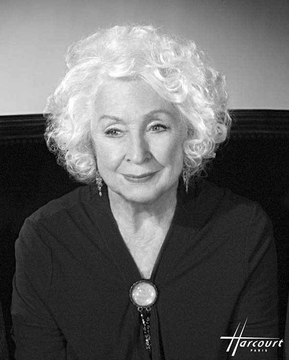 Danielle Darrieux photographed by Studio Harcourt Paris